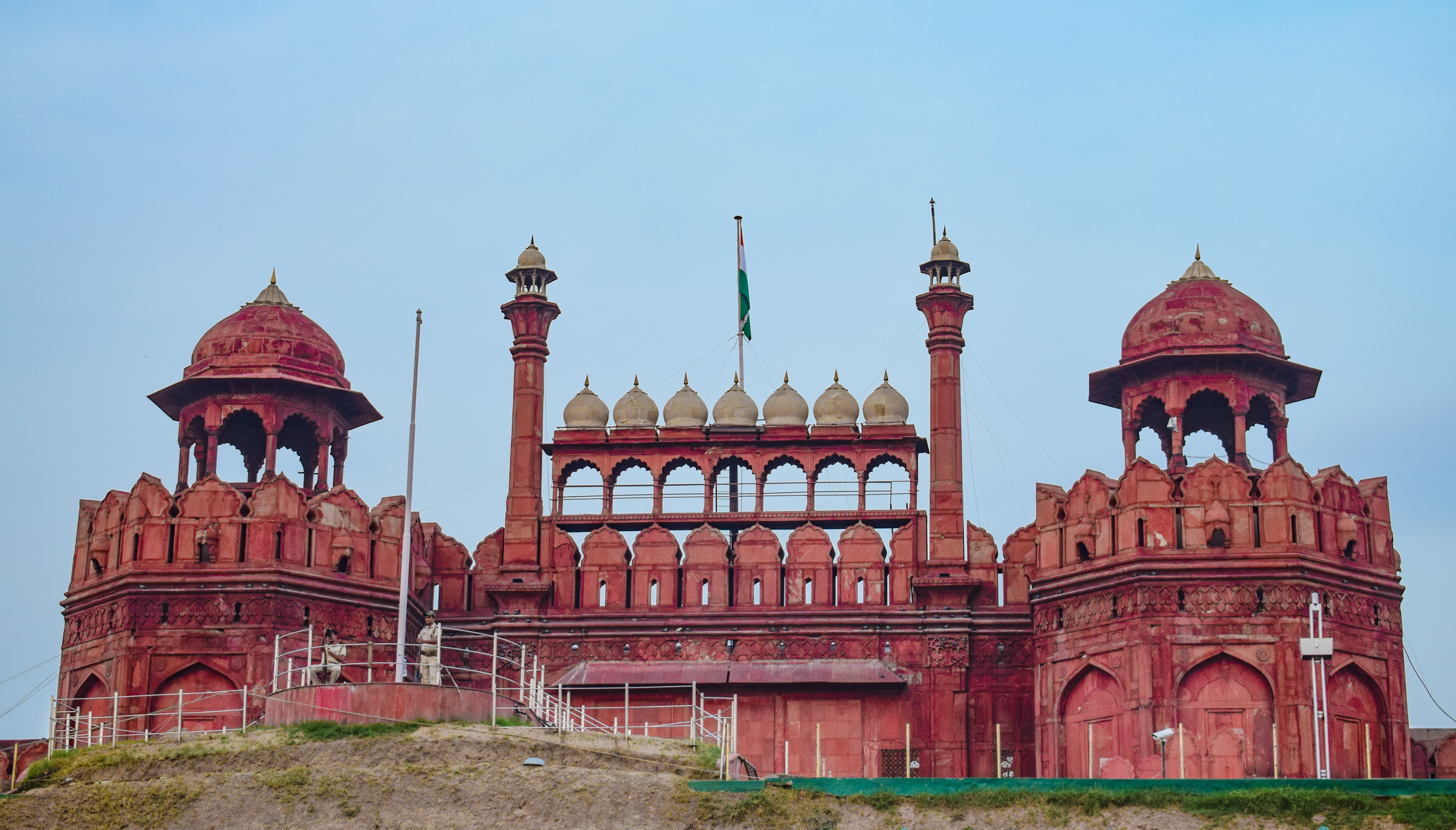 Red Fort, Delhi